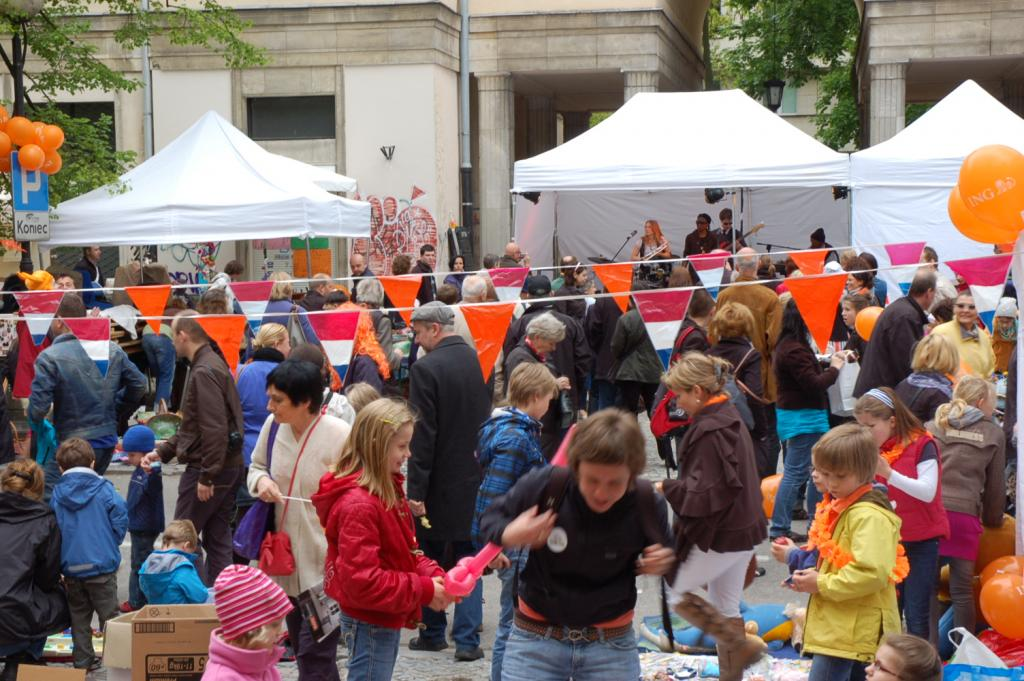 Children's Flea Market at the 3rd edition of Festyn O Holender! (2010)